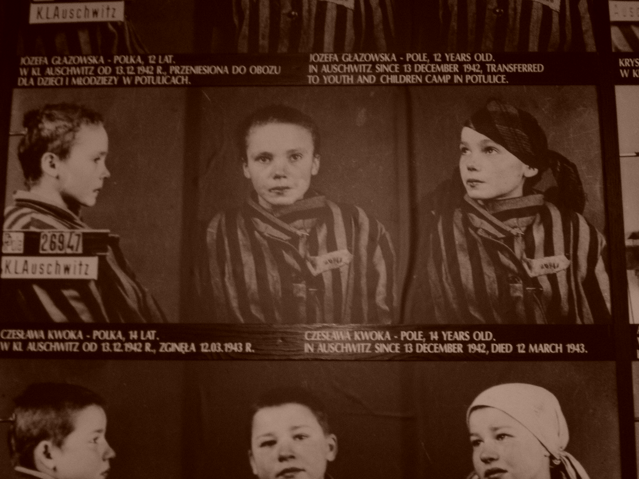 Wall display of prisoner identification photos by the SS in Nazi-occupied Poland of 1943, created through force with both an unwilling subject and an unwilling creator, notably prisoner Wilhelm Brasse of Poland. Image taken by Skyliber in Auschwitz concentration camp in 2004.